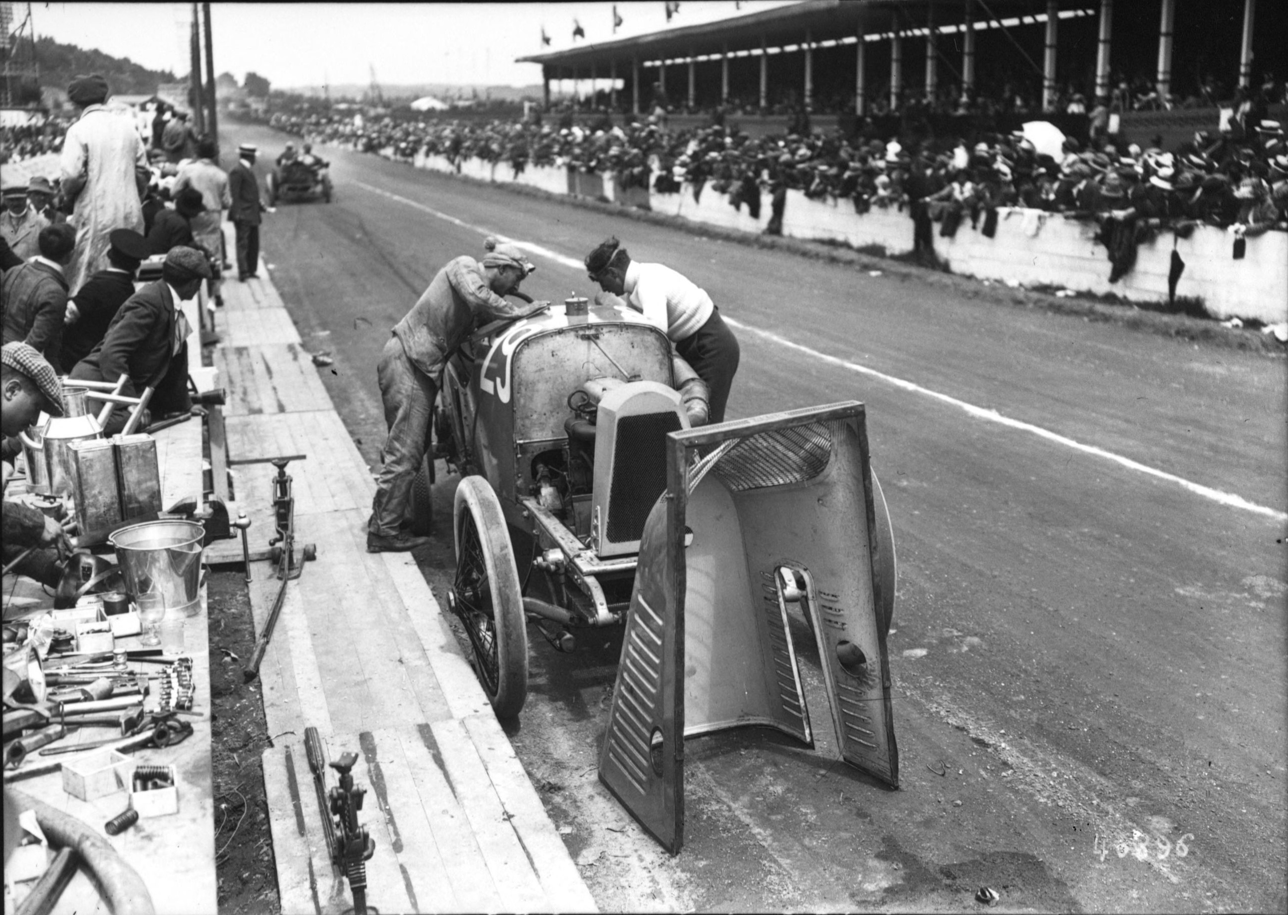 Maurice Tabuteau at the 1914 French Grand Prix